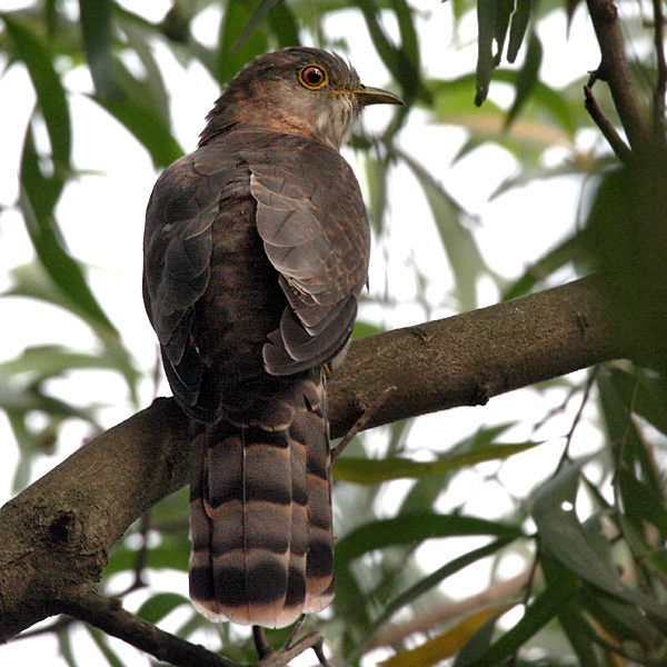 Common Hawk Cuckoo Cuculus varius (syn. Hierococcyx varius) in Kolkata, West Bengal, India.